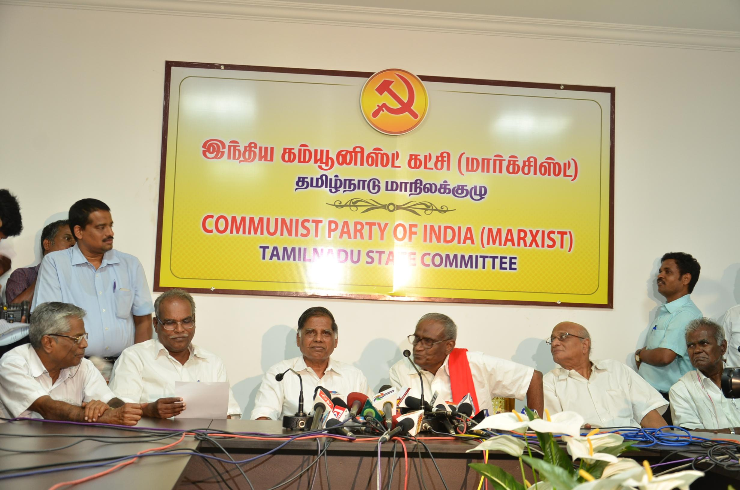 CPI(M) and CPI Tamilnadu Leaders Meeting about 2014 Lok Sabha Election